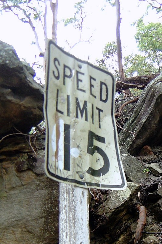 A remnant Australian pre-metric 15 MPH speed limit sign